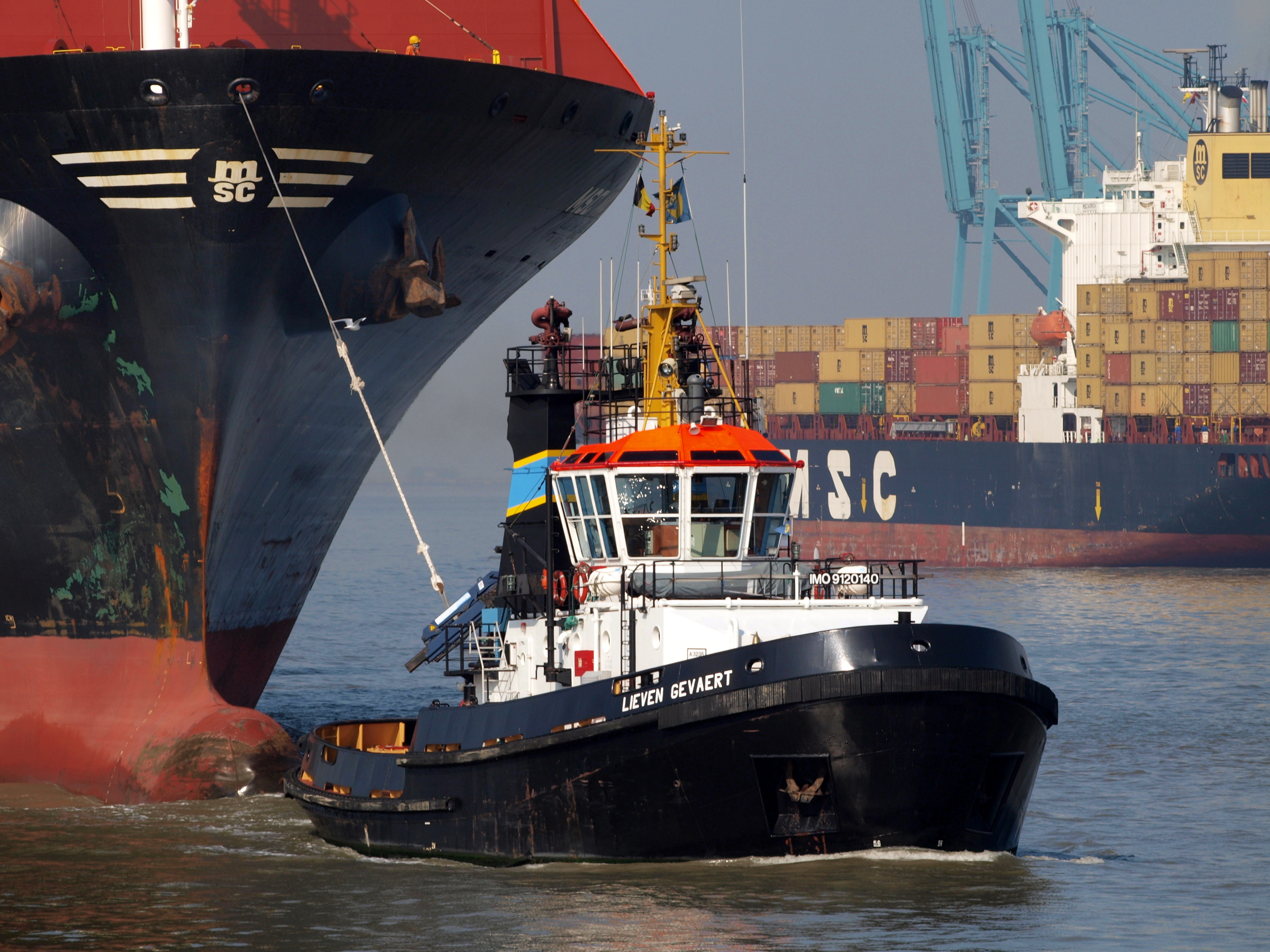 Lieven Gevaert IMO 9120140 at Port of Antwerp, Belgium.